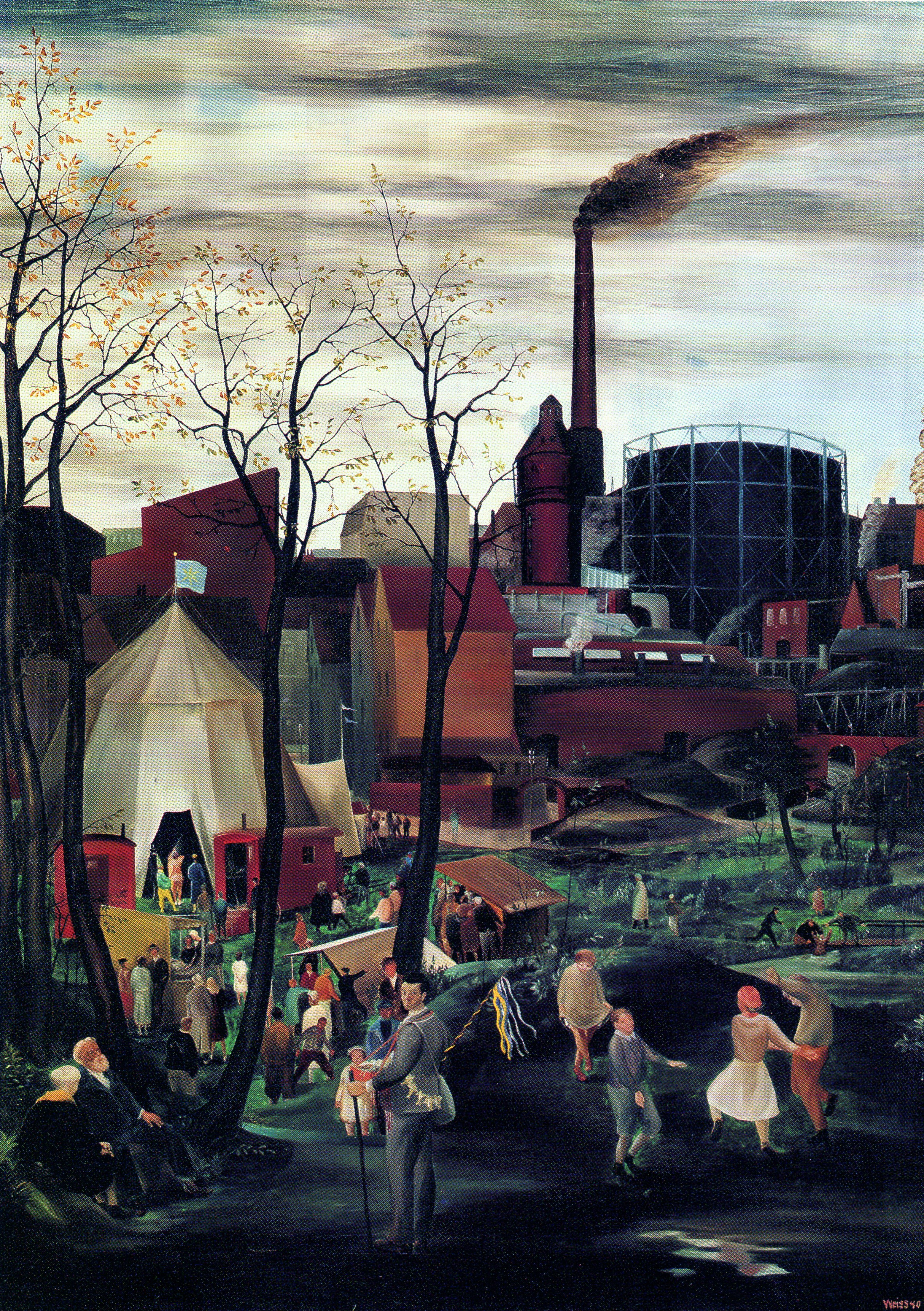 The peddler, painting by author Peter Weiss, 1940, oil on canvas, 77,5 x 56,5 cm